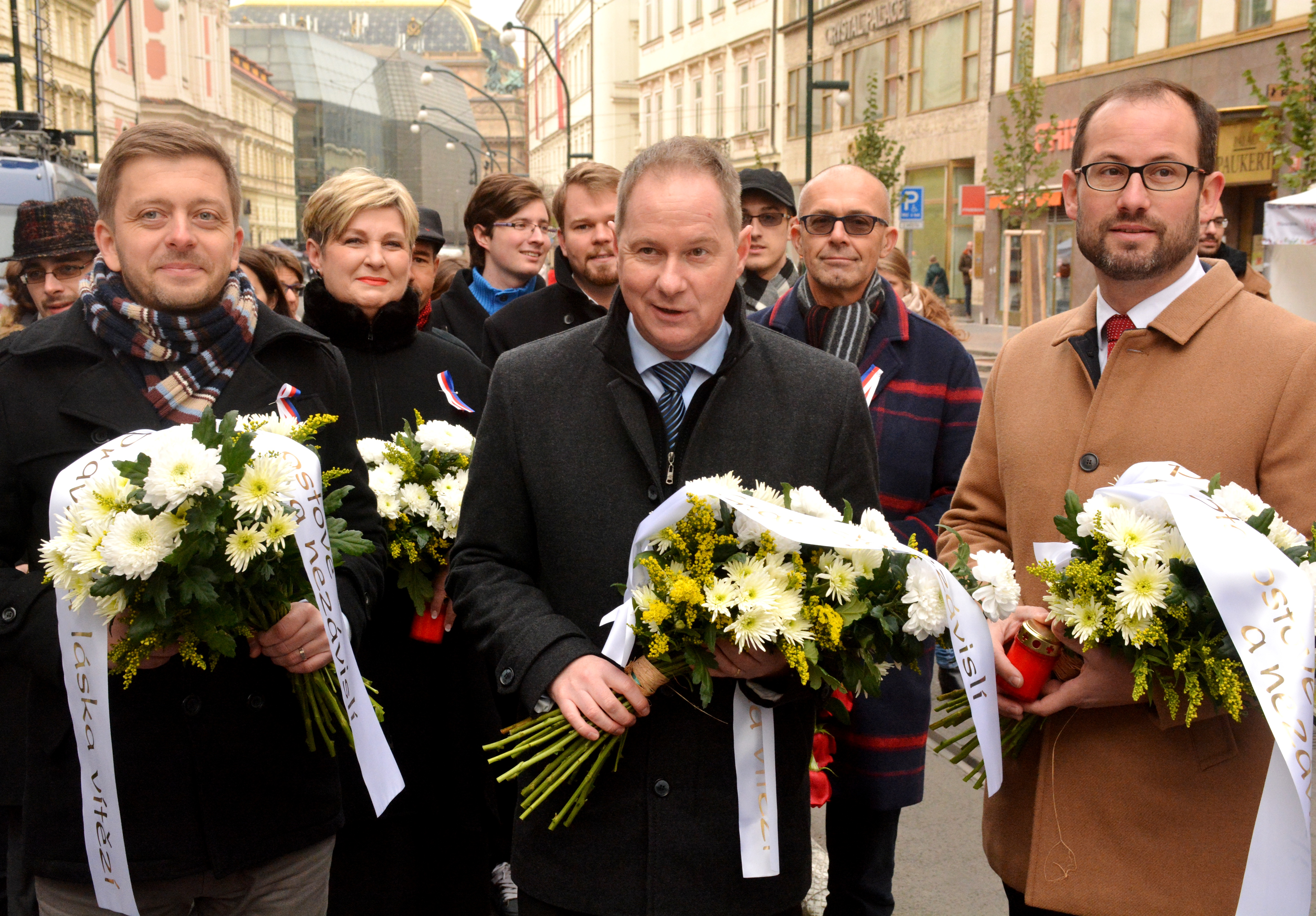 from left: Vít Rakušan, Petr Gazdík and Jan Farský, Czech politicians